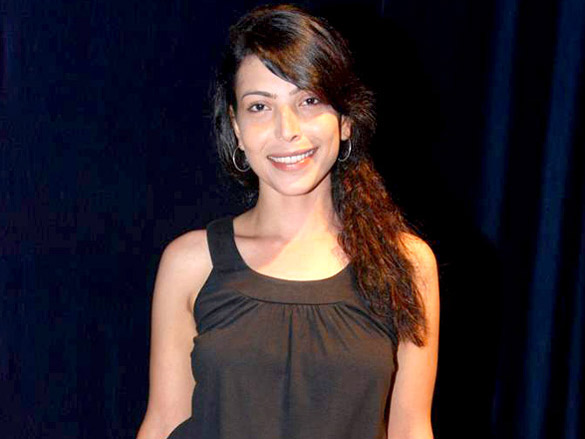 Shilpa Shukla at Yagnesh Shetty's martial arts institute launch